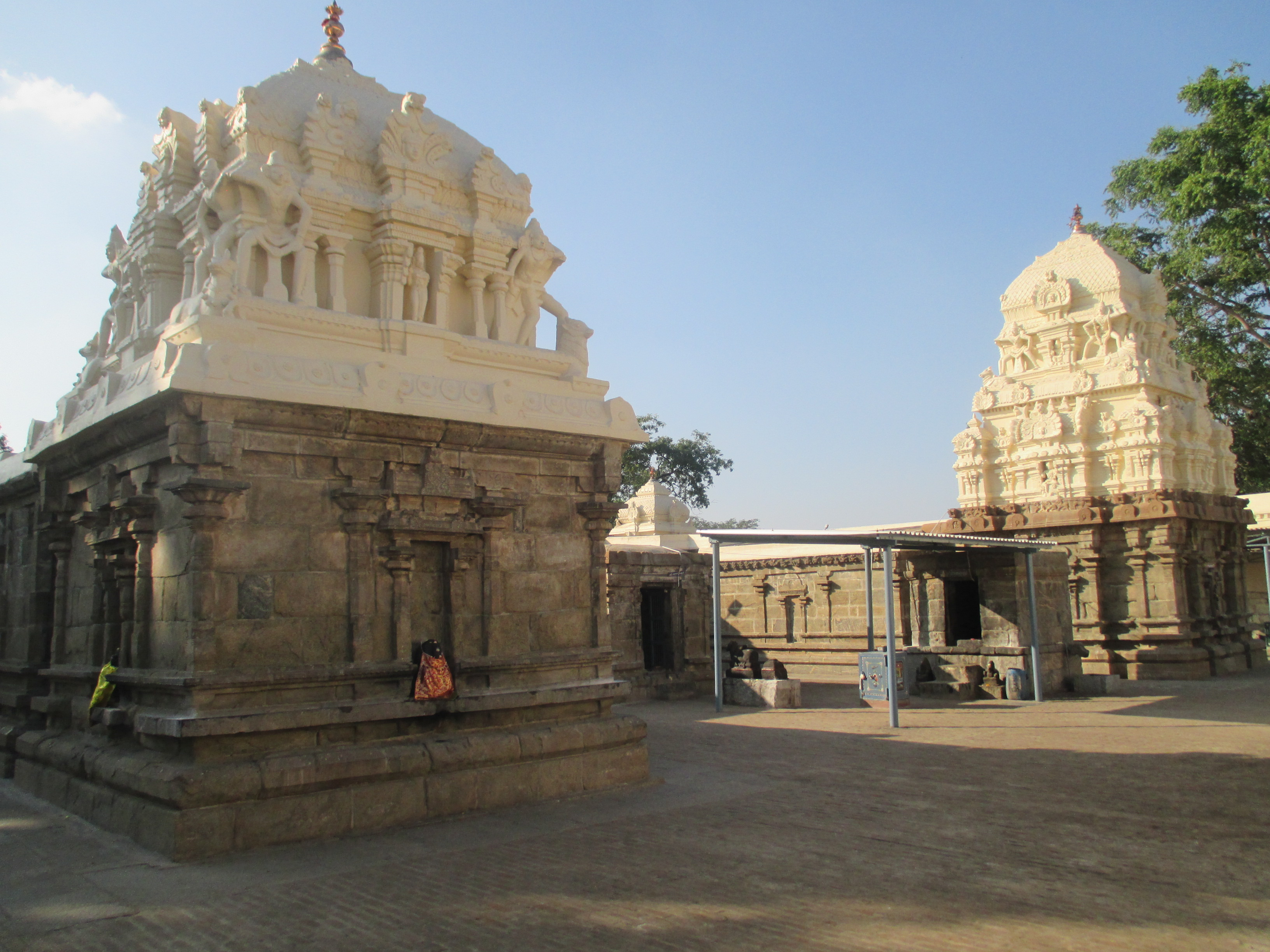 Thirumuruganatheeswar Temple